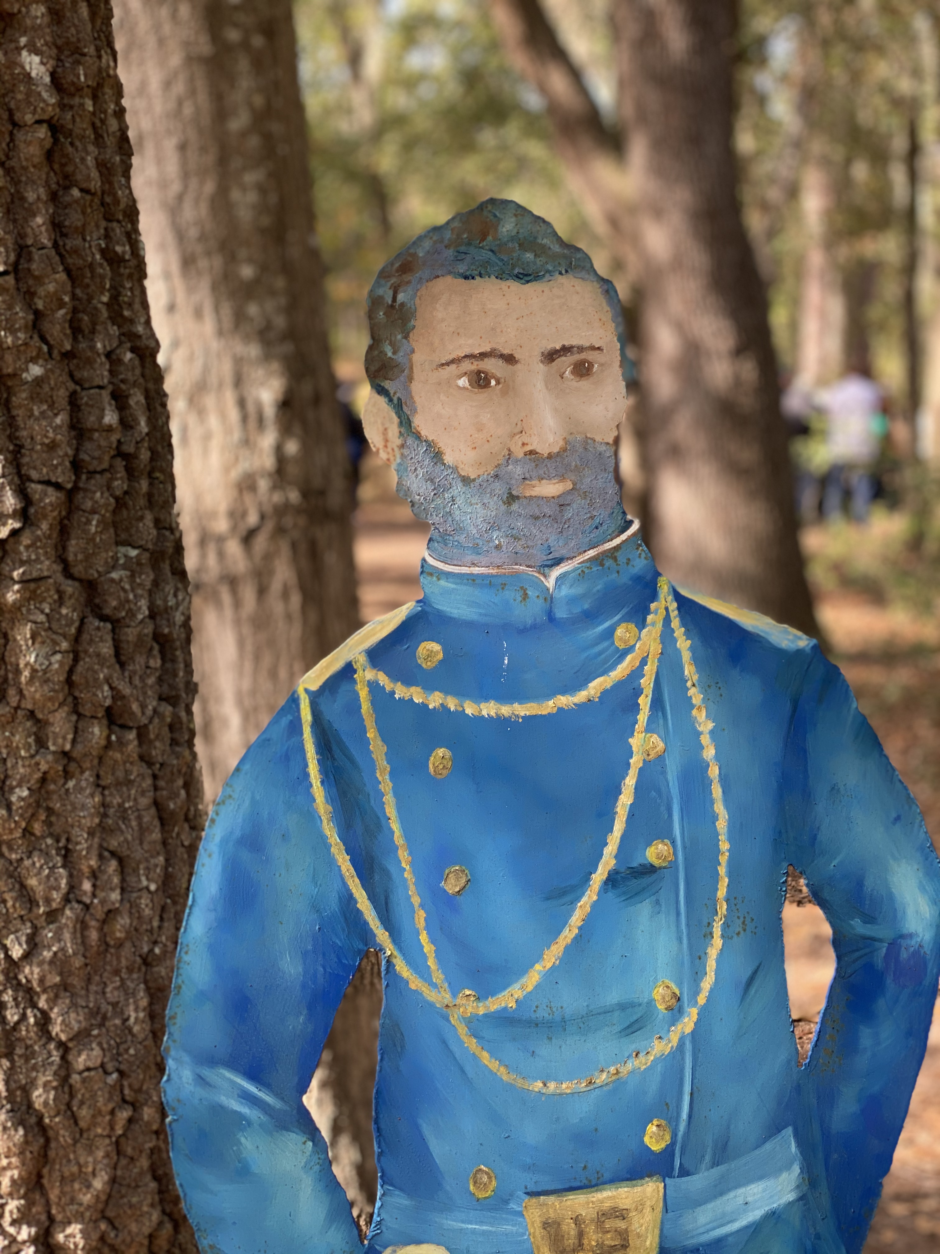 Metal Statute of a Solider who helped construct Fort Howell